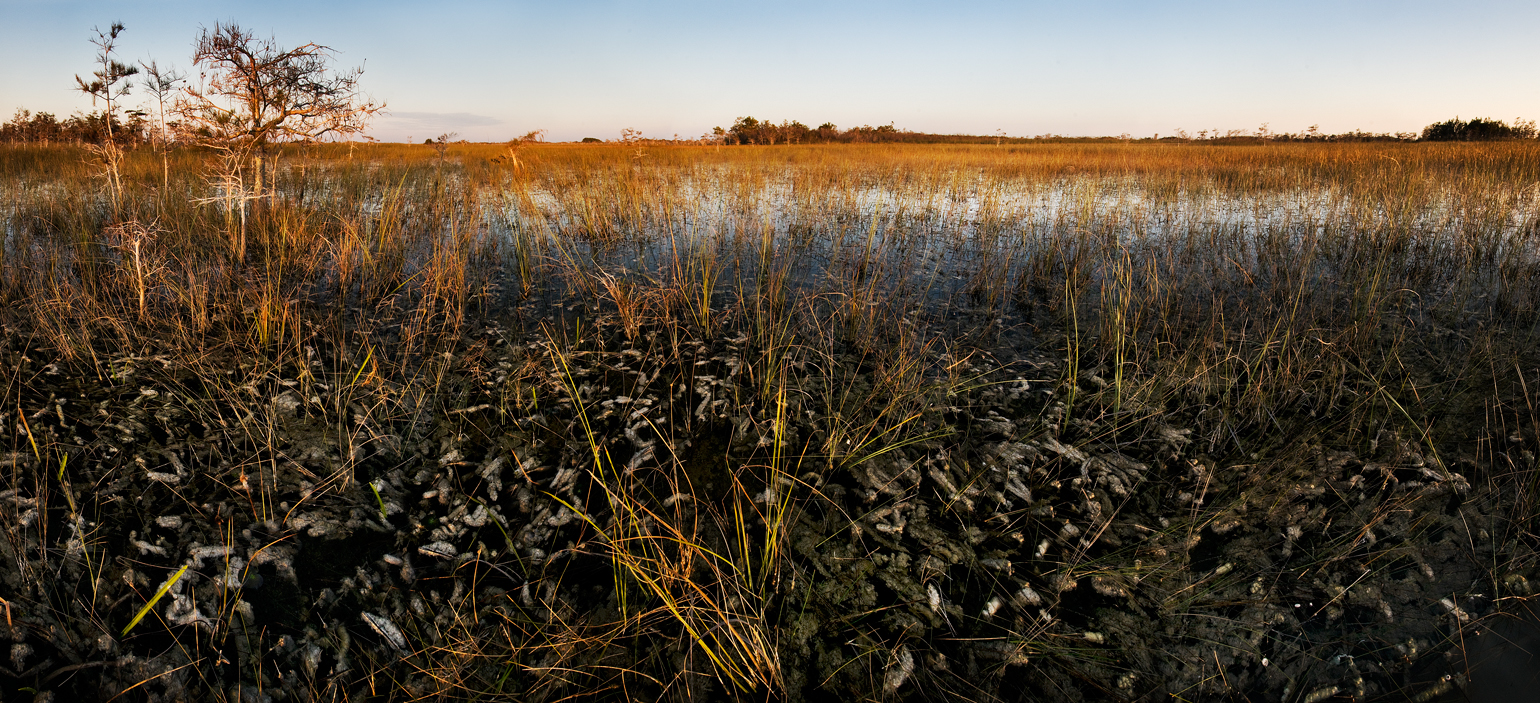 River of Grass (3), NPSPhoto, Brian Call